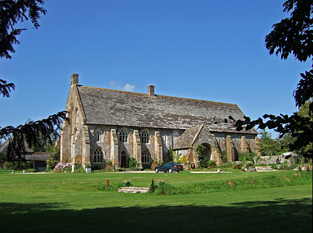 The Tithe Barn, Cerne Abbas, Dorset. Scheduled Ancient Monument. Late C14 Tithe Barn, Grade I Listed, partially converted to a private house at the south end in the late C18. Restored in the C19, the interior was totally reconstructed in the C20, and is currently a private home. Photographed from the public footpath from the village.